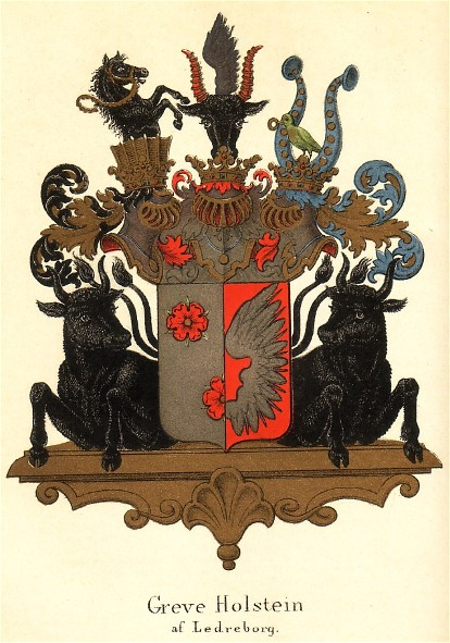 Coat of arms of the comital Holstein-Ledreborg family